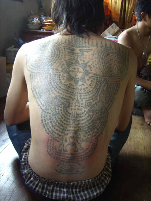 Devotee of Wat Bang Pra covered in Yant Tattoos fotographer; Spencer Littlewood